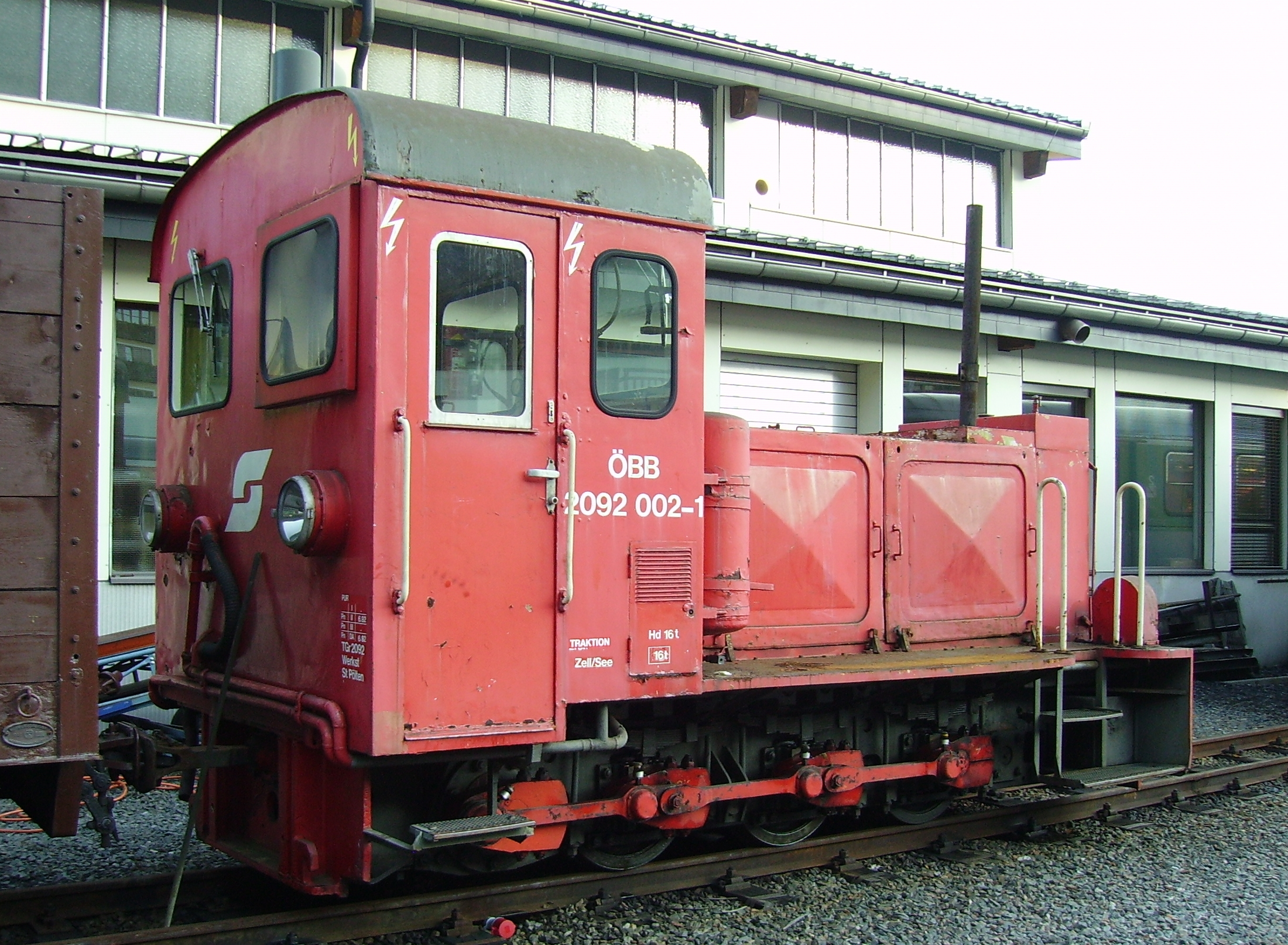 Former 2092.002 of the ÖBB, now Vs 51 of the SLB Pinzgauer Lokalbahn, located in Zell am See/Tischlerhäusl.